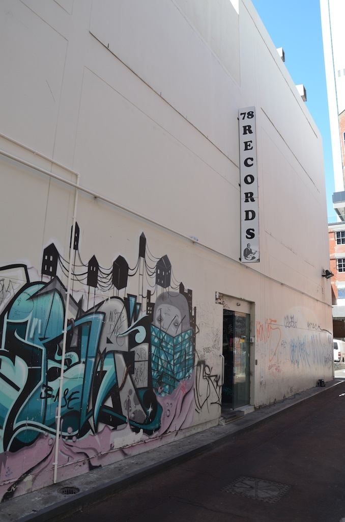 78 Records Perth entrance, as well as graffitit, in laneway off Murray Street, Perth, Western Australia